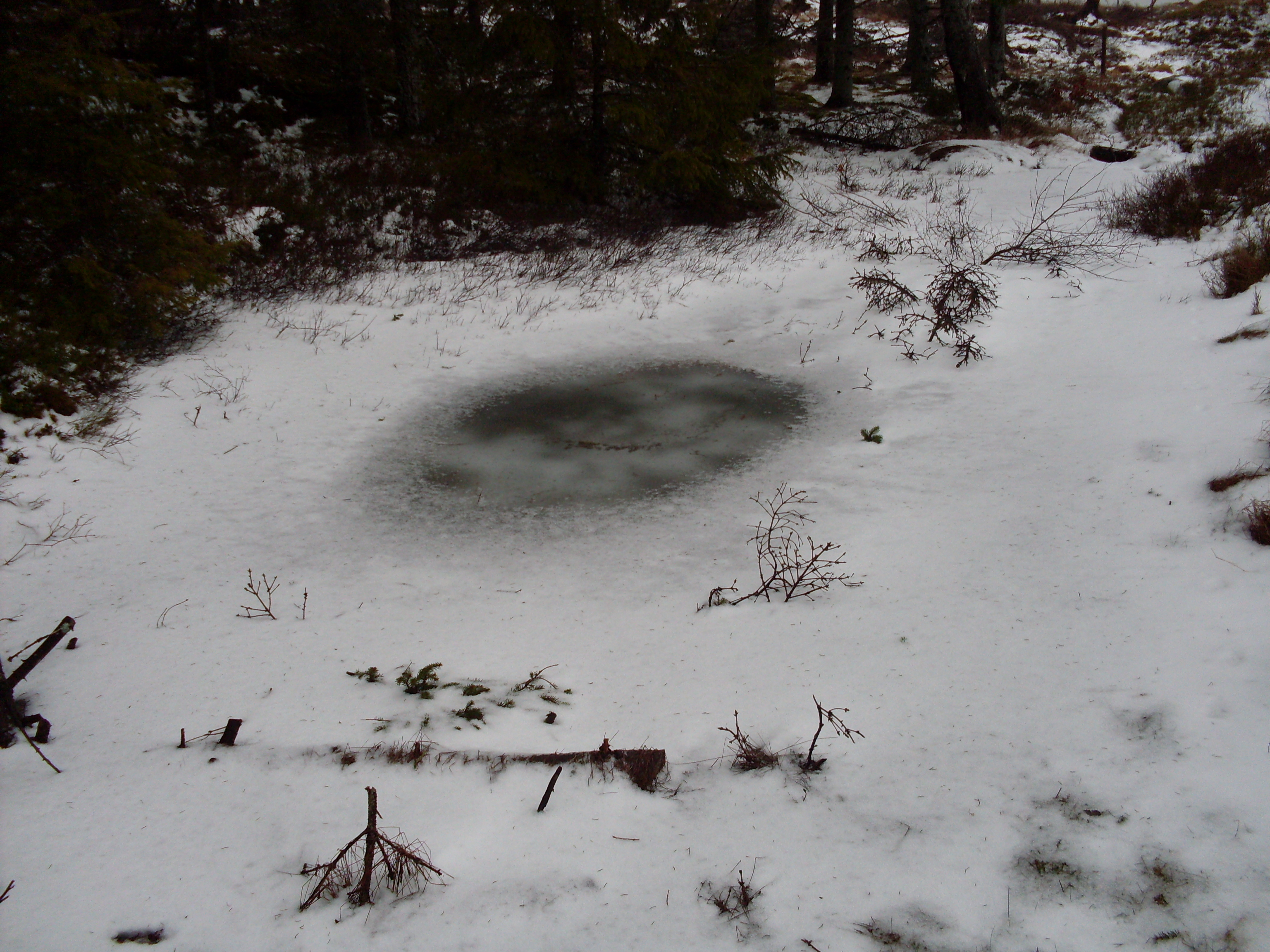 Water hole next to the eastern wall of the hill fort "Träleborg" on Mösseberg, Sweden.